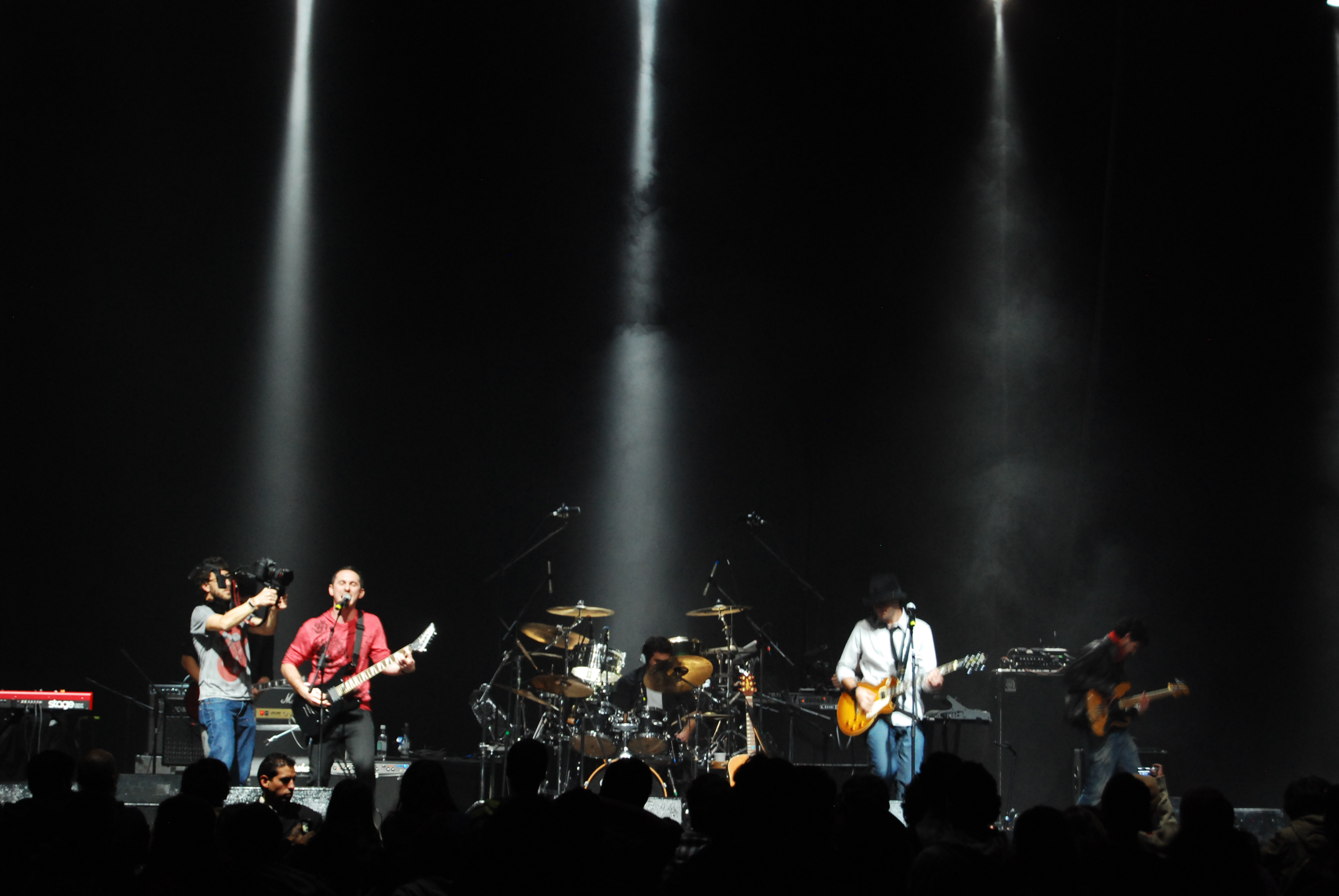 SOFIA performing at the Teatro Caupolicán